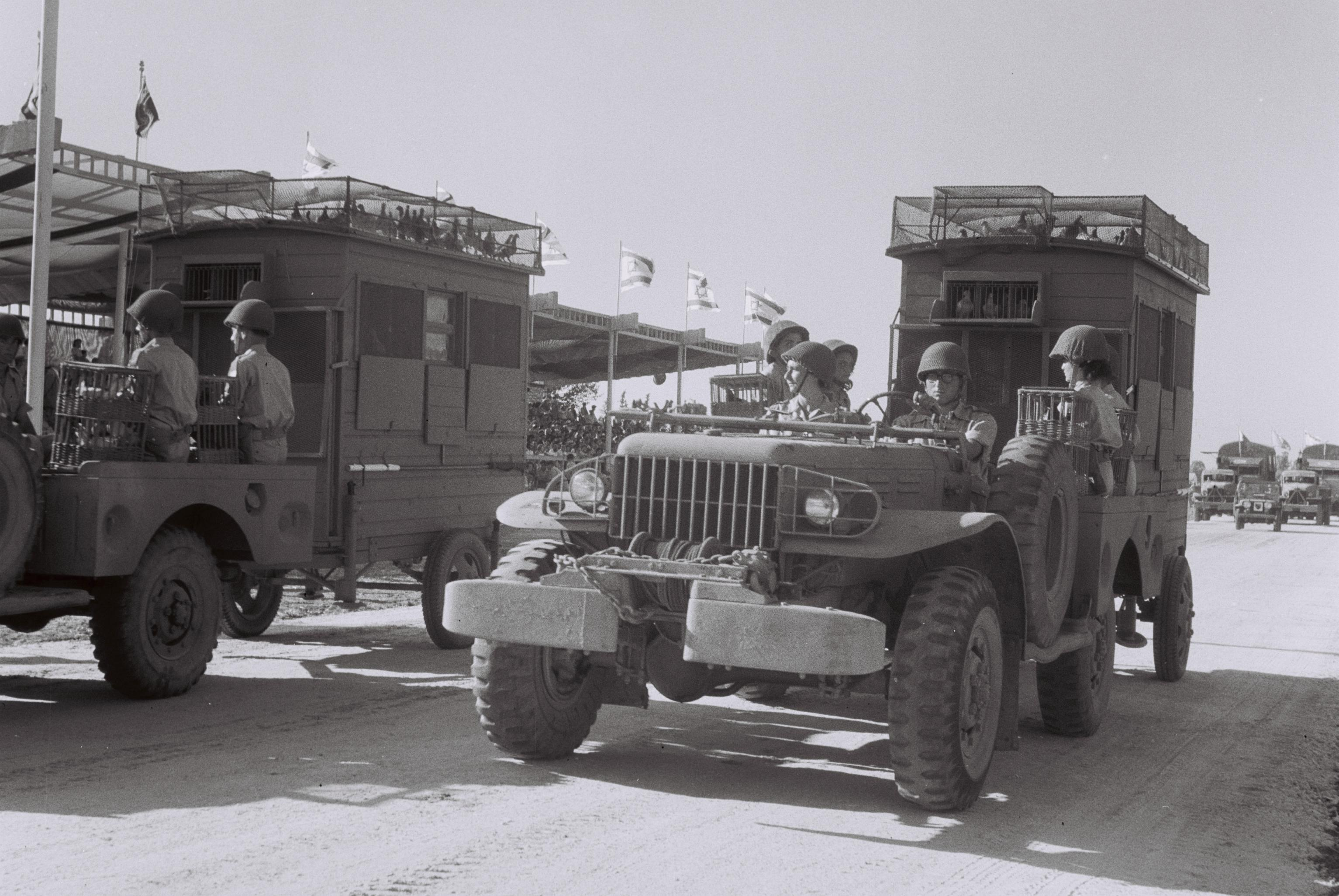 COMMUNICATION UNIT WITH CARRIER PIGEONS, ON PARADE, ARMY DAY, TEL AVIV.